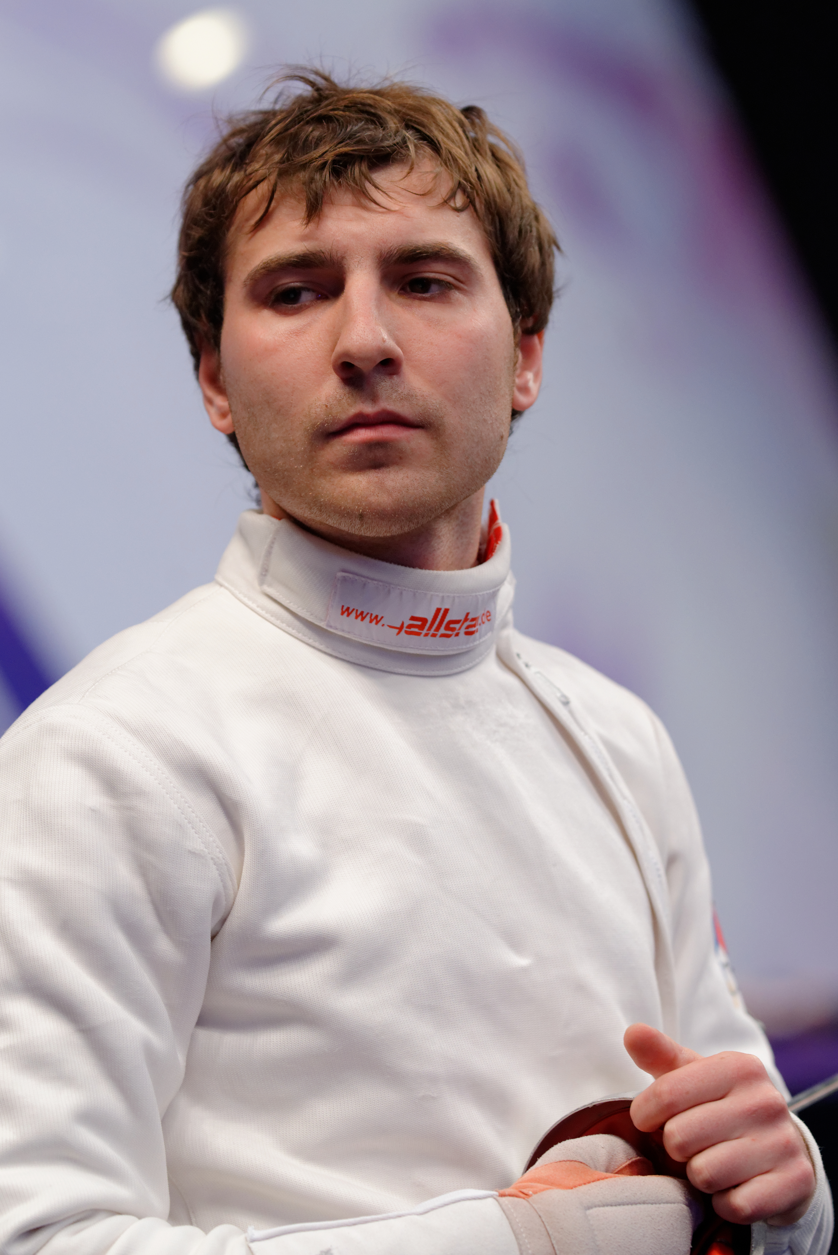 Russia's Pavel Sukhov during his T16 match against Nikolai Novosjolov of Estonia at the 2014 Challenge RFF-Trophée Monal, a men's épée World Cup event, on 3 May 2014.